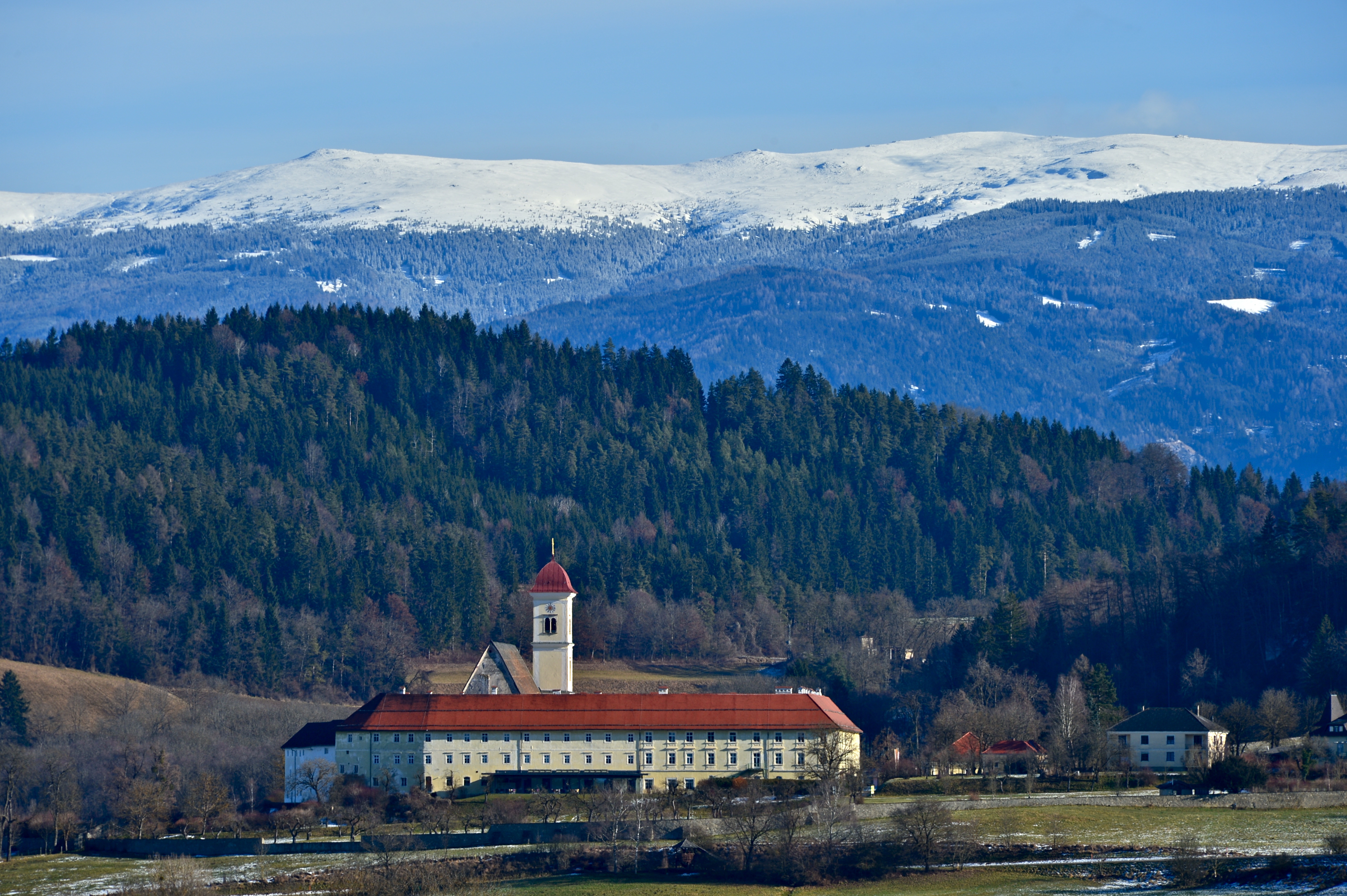 Monastery on Schlossallee #6, municipality Sankt Georgen a. L., district Sankt Veit, Carinthia, Austria, EU